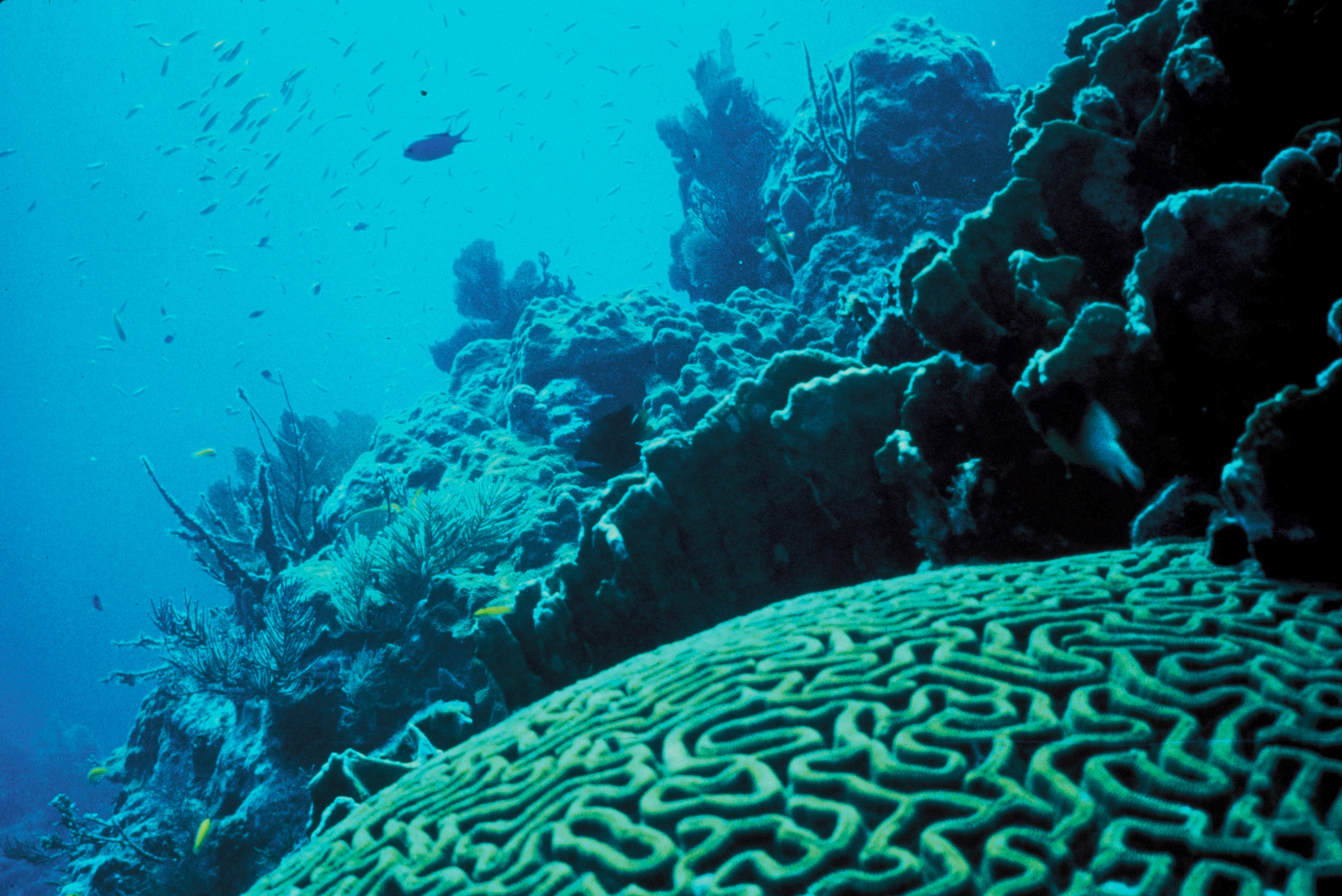 Coral Reef in Florida by Jerry Reid, WO-3540-CD42A, U.S. Fish and Wildlife Service